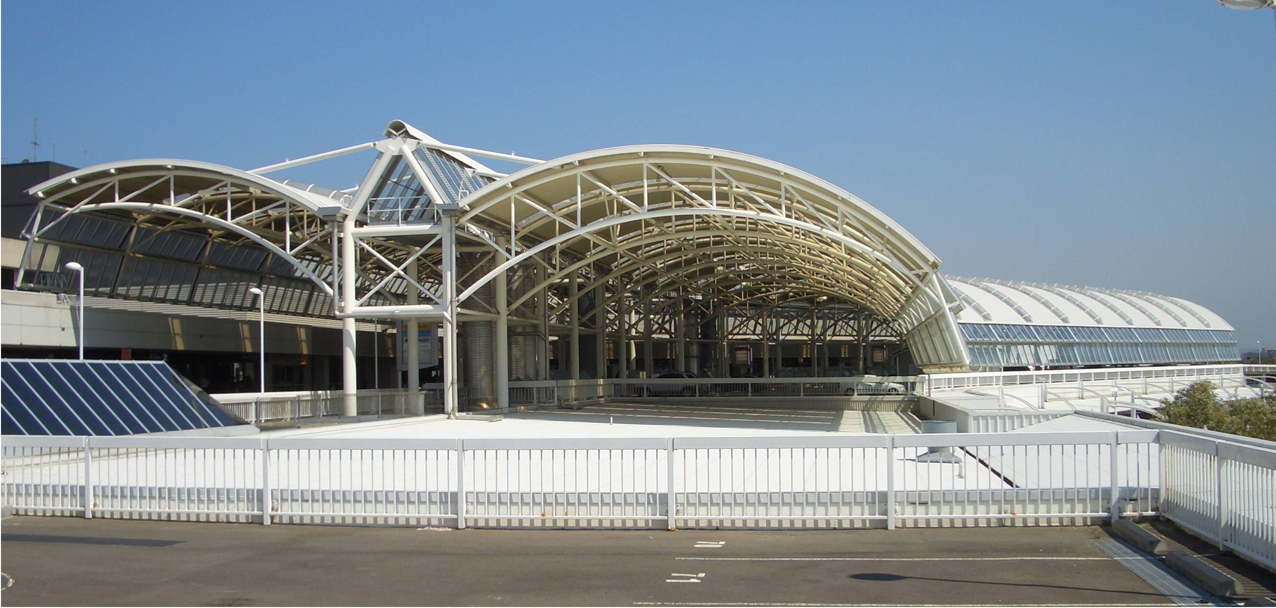 Sydney International Airport Terminal